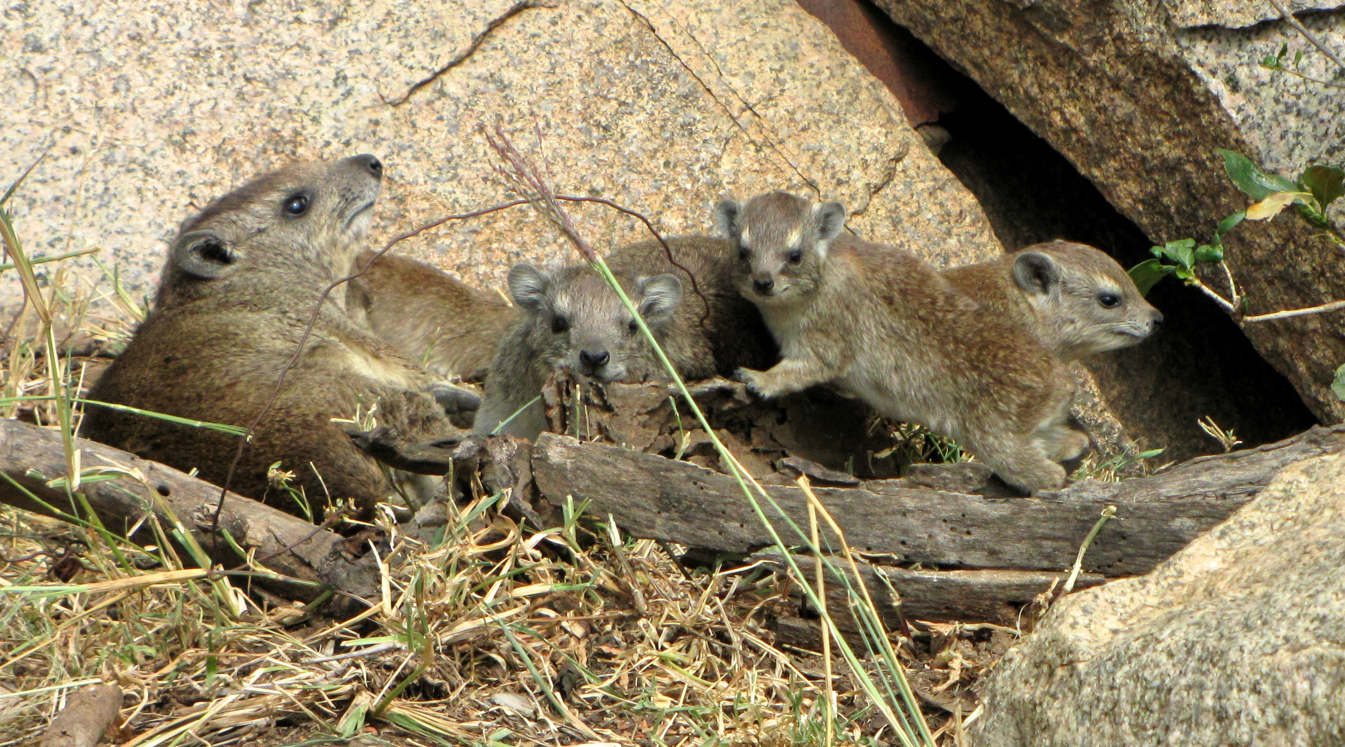 Yellow-spotted hyrax (Heterohyrax brucei) family, Serengeti National Park, Tanzania